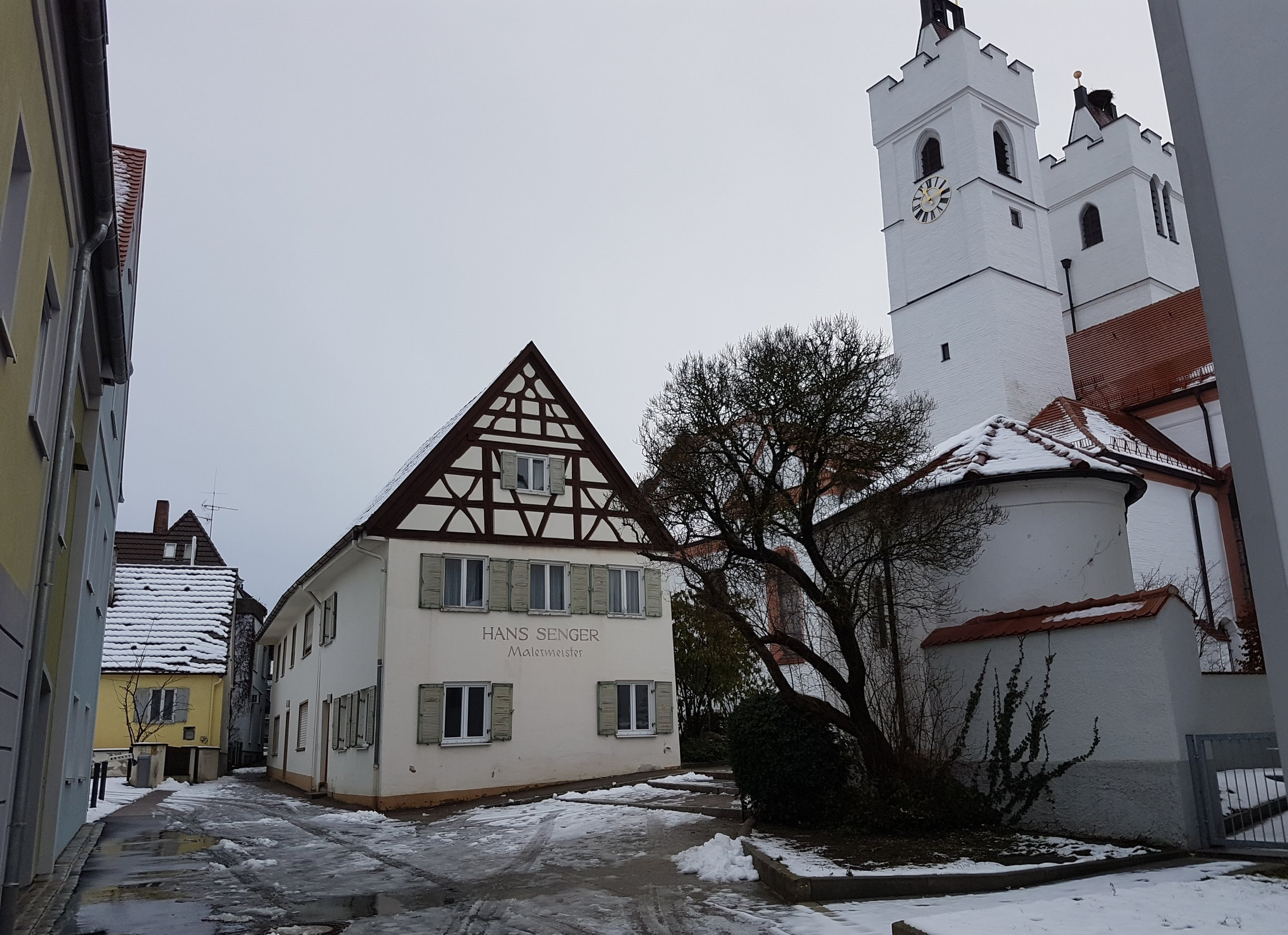 Inner City of Wertingen